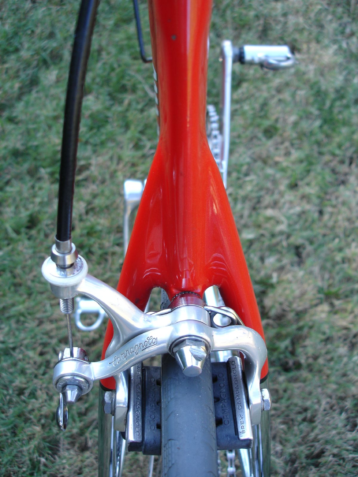 Campagnolo sidepulls on a 1989 Serotta Road bike